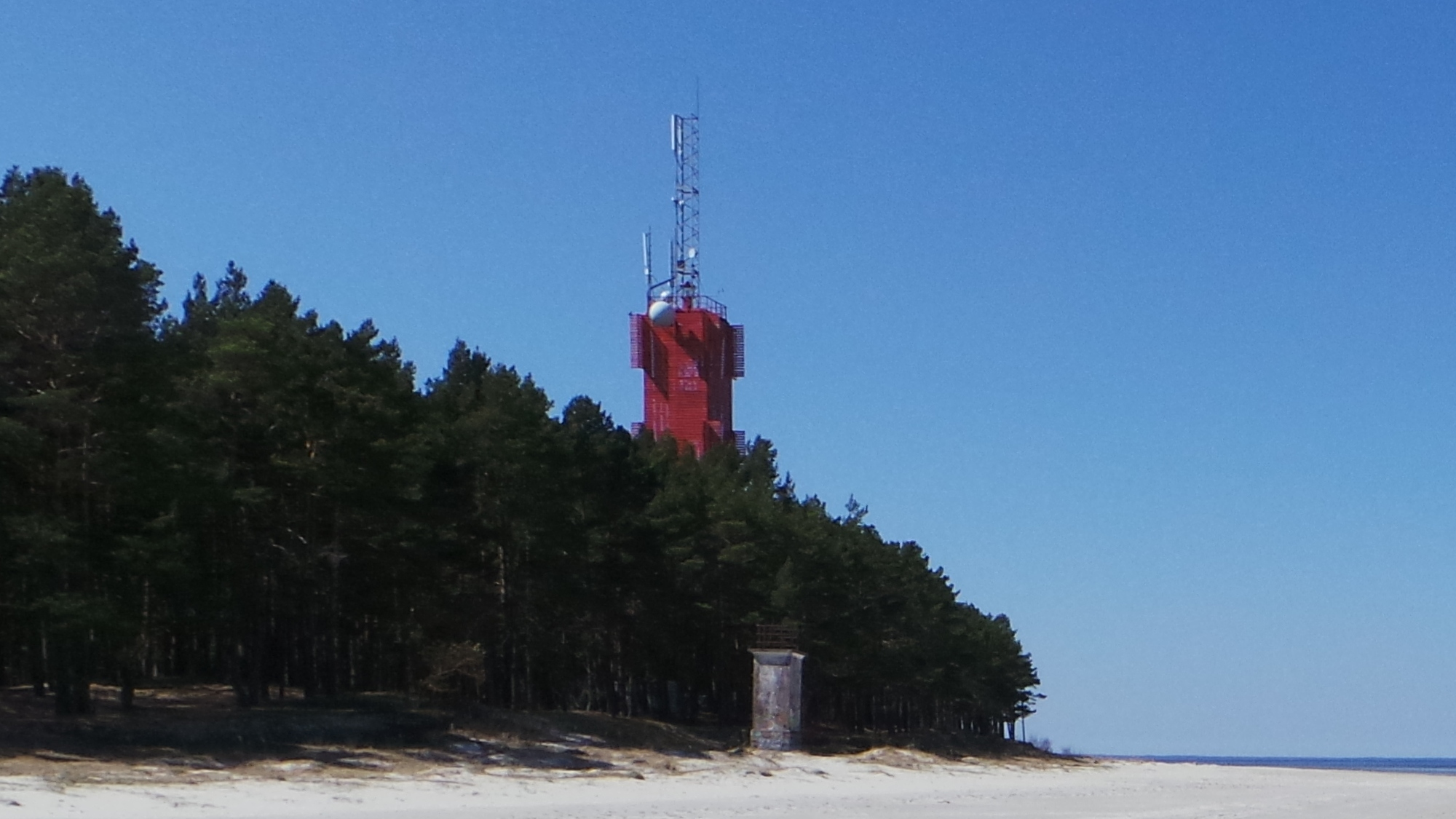 Ragaciems Lighthouse